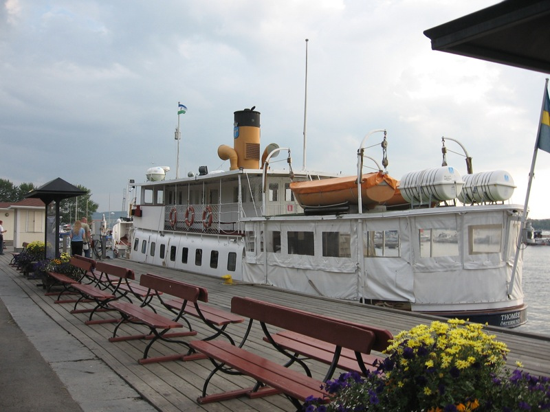 Östersund, s/s Thomée. This is an image of the protected Swedish ship S/S Thomée, with call sign SGVM .